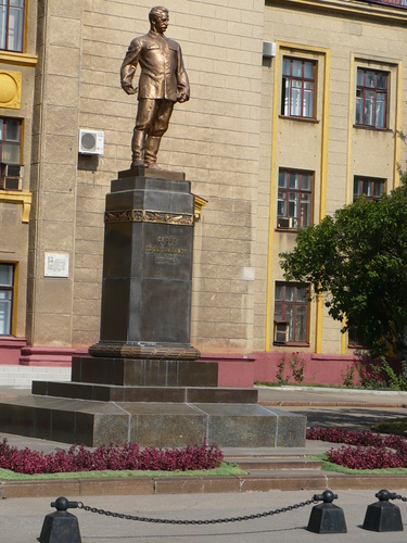 The monument to Sergo Ordzhonikidze, Kharkiv, Moskovsky Prospekt 275